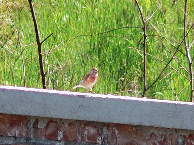 Carduelis cannabina Linnet / Makolągwa Author: Wojsyl